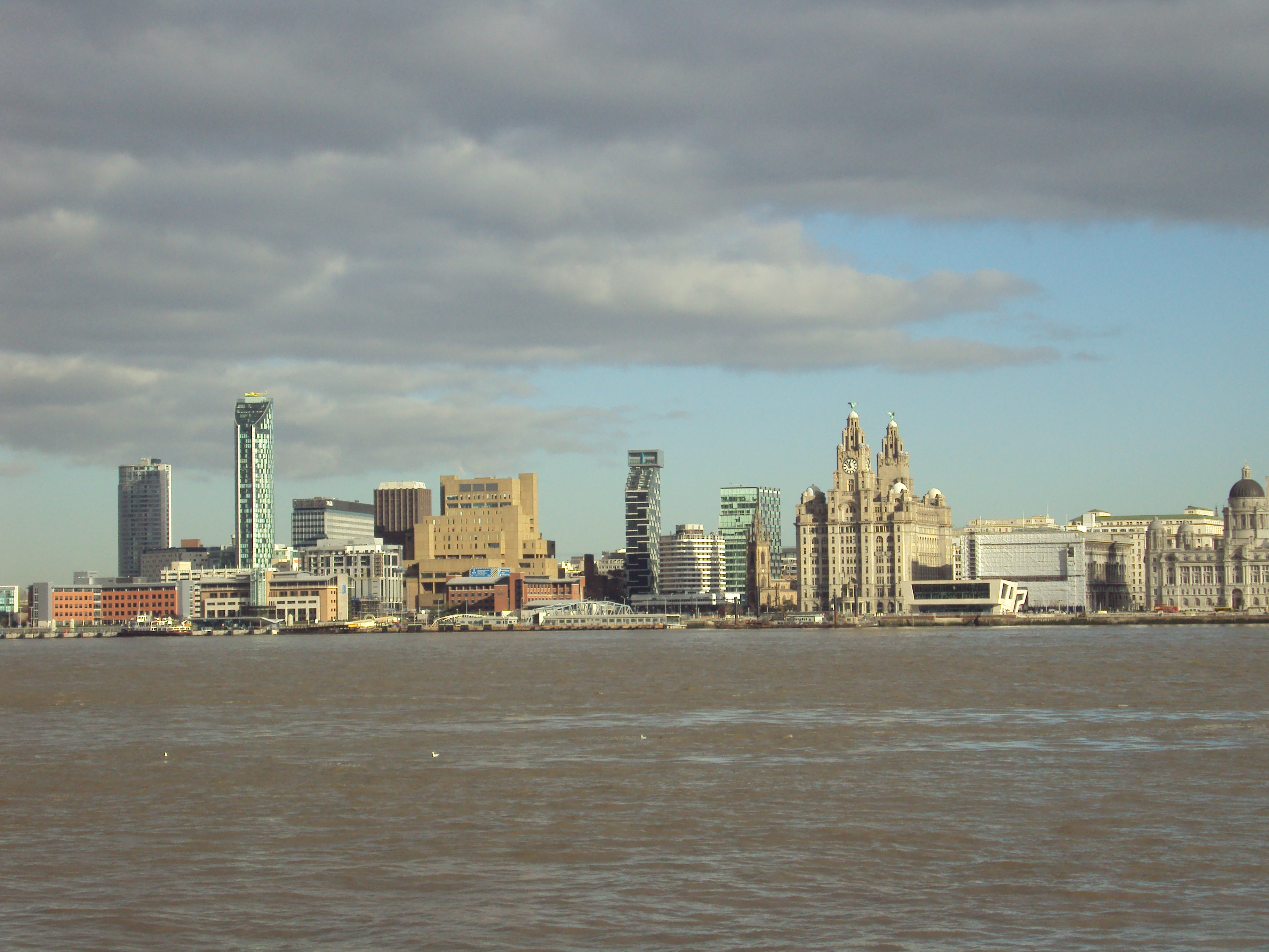 Liverpool waterfront. Photo taken from Birkenhead, England.